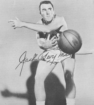 Professional baseball player Jack Twyman